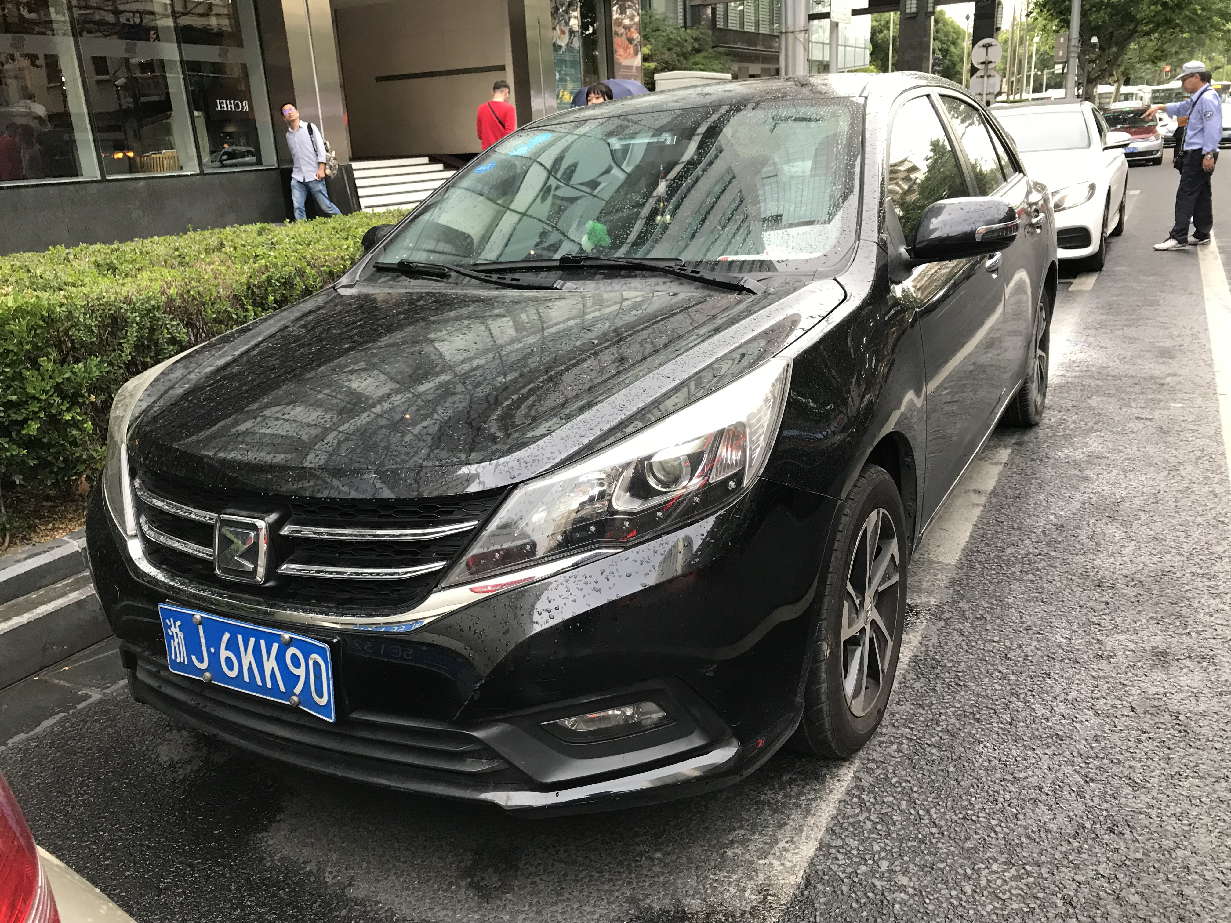 Zotye Z300 facelift